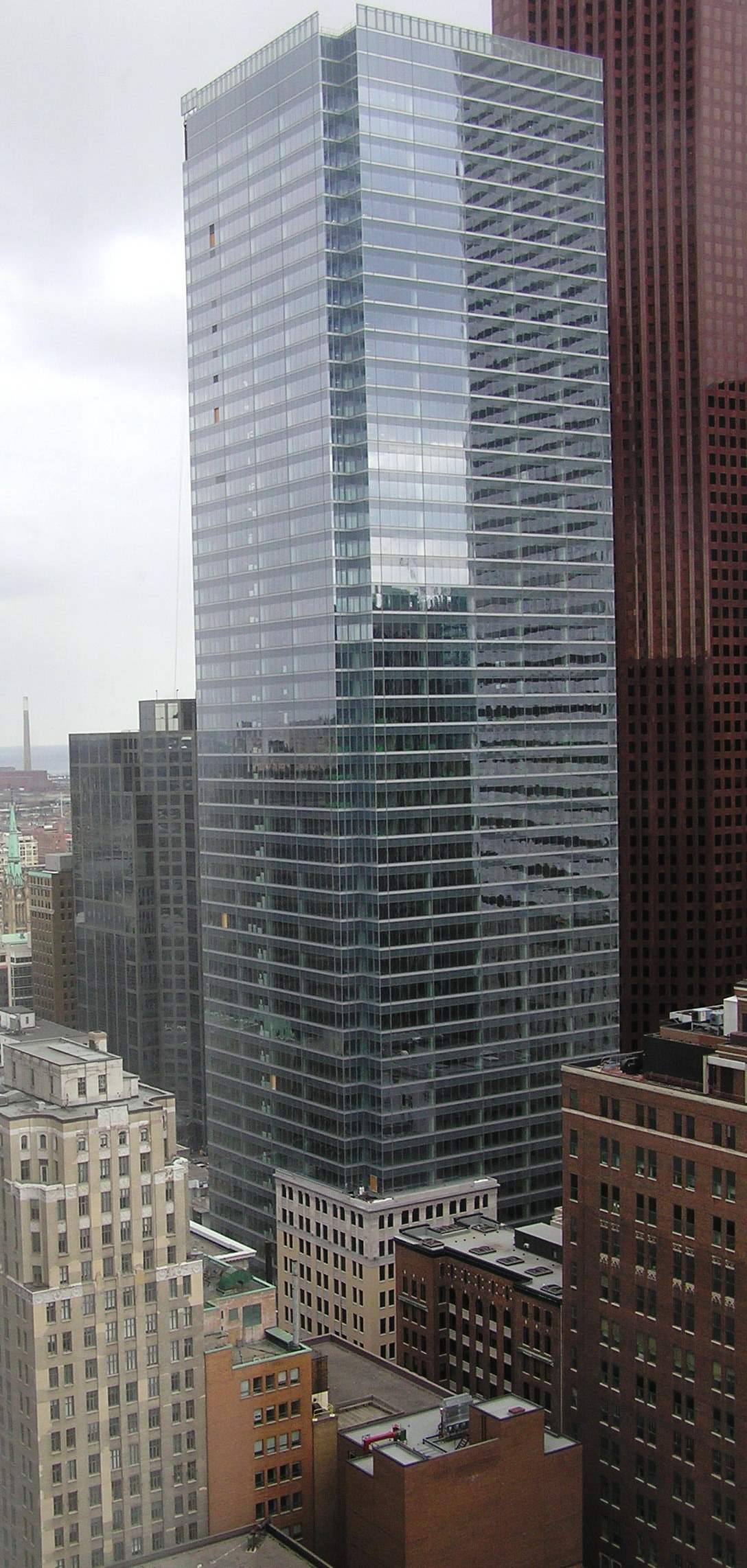 First tower of the Bay Adelaide Centre, nearing completion. Taken from the 38th floor of the Sheraton Centre. Toronto, Canada.